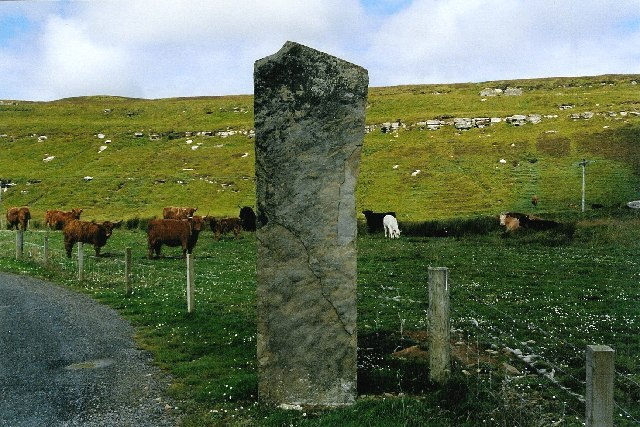 Standing Stone near Taversoe Tuick cairn. One of several roadside stones along the south coastline of Rousay - an area rich in ancient monuments.